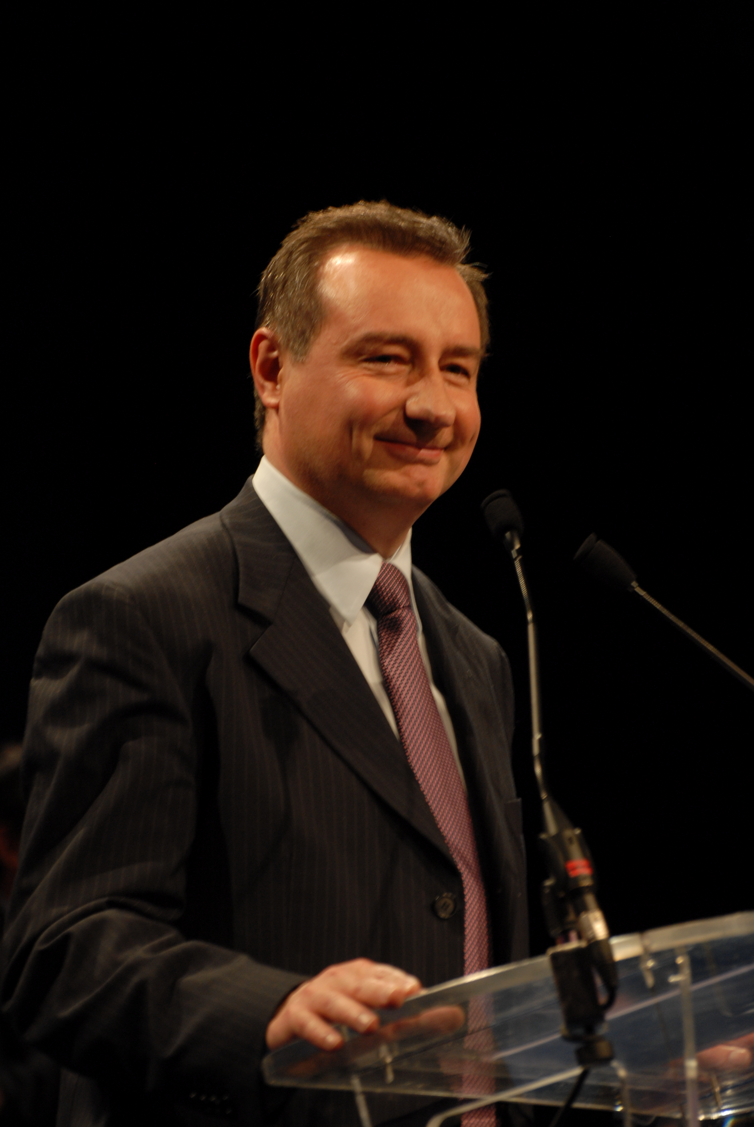 French politician Jean-Luc Moudenc at his rally for the French town elections in Toulouse, 2008.